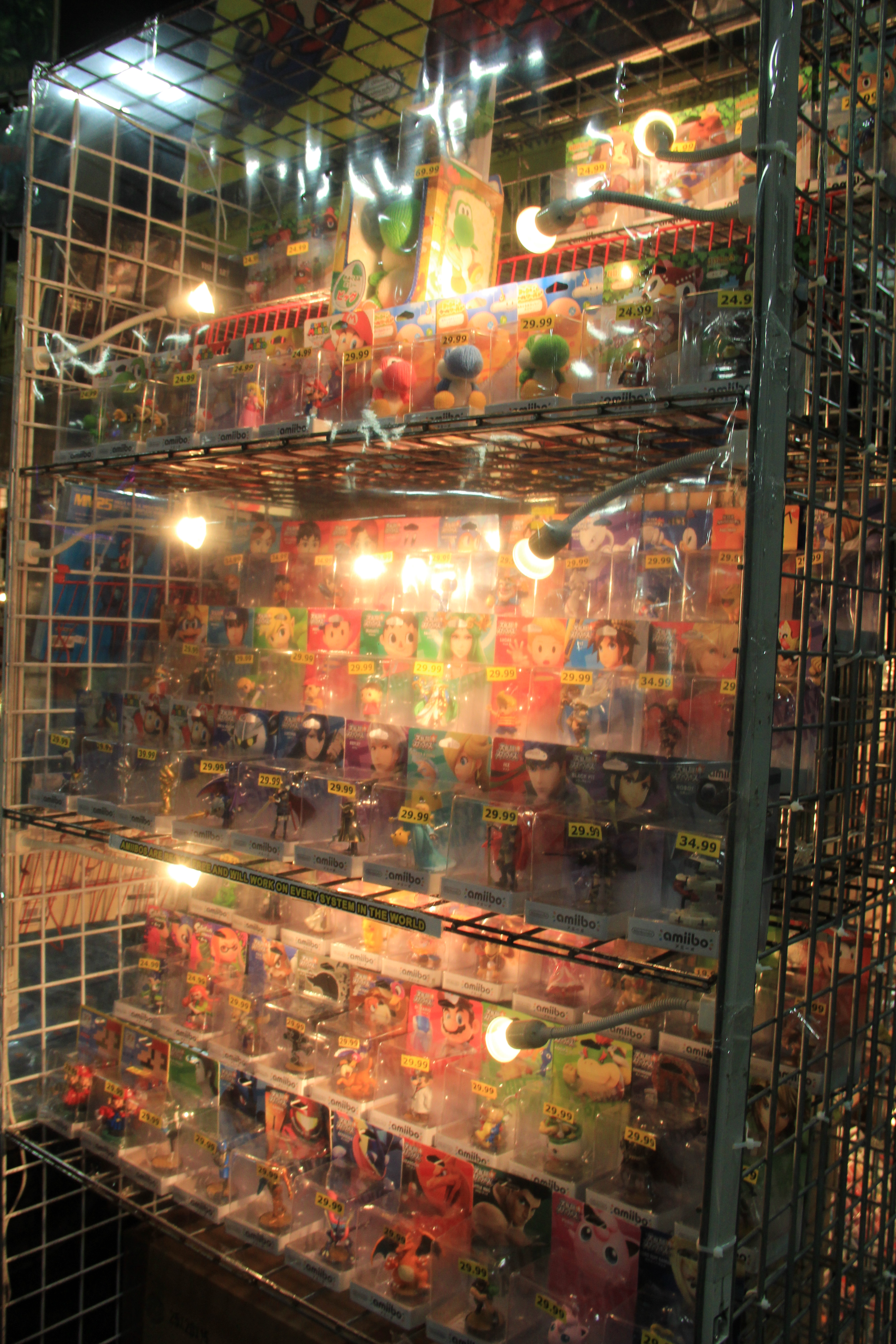 IMG_5436 Taken at PAX South 2016.